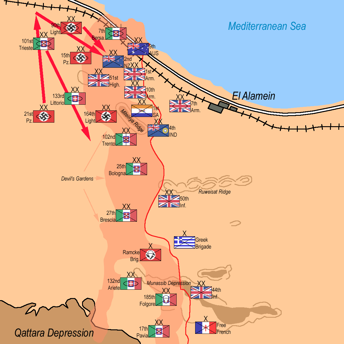 Second Battle of El Alamein: Australian 9th Division gives up attempt to break through Axis lines west of Hill 28: October 29th, 1942. Axis Commander General Rommel reorganizes his troops: October 29th, 1942.